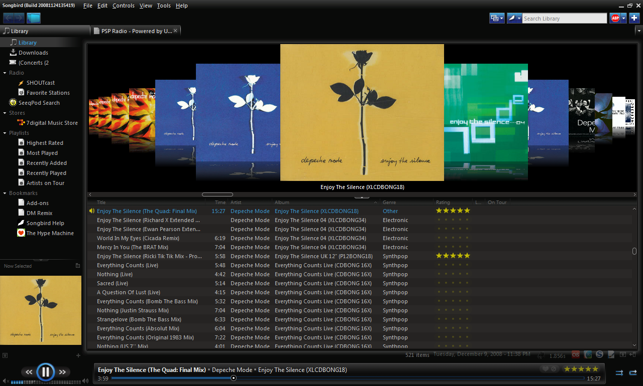 Songbird with the following add-ons: MediaFlow AdBlock Plus Last.FM FasterBird YABS Theme Music Store Stylish SeeqPod Music Search SHOUTcast Radio Tickets FoxTab New Tab Button